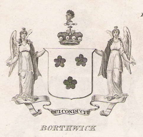 Engraving of the Arms of the Lords Borthwick.